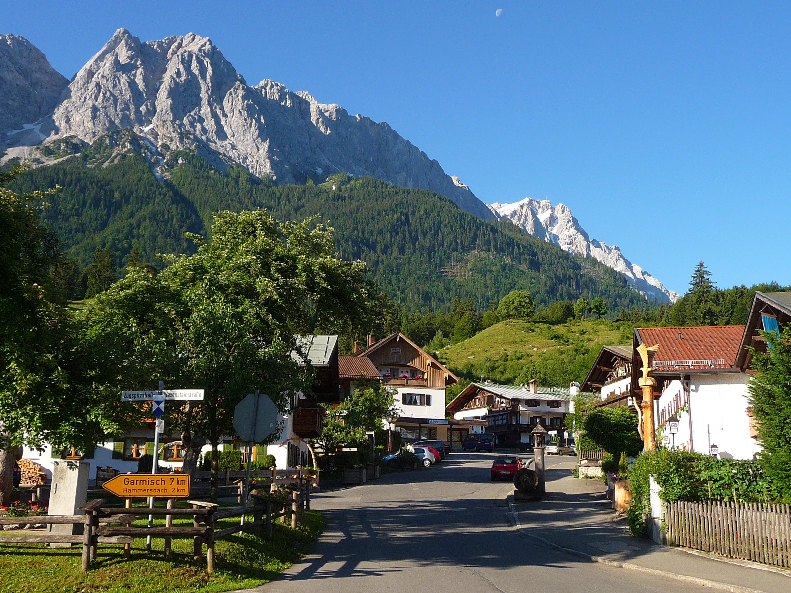 Marketsquare Obergarainau with the mountains 'großer Waxenstein' and 'Zugspitze' in the background